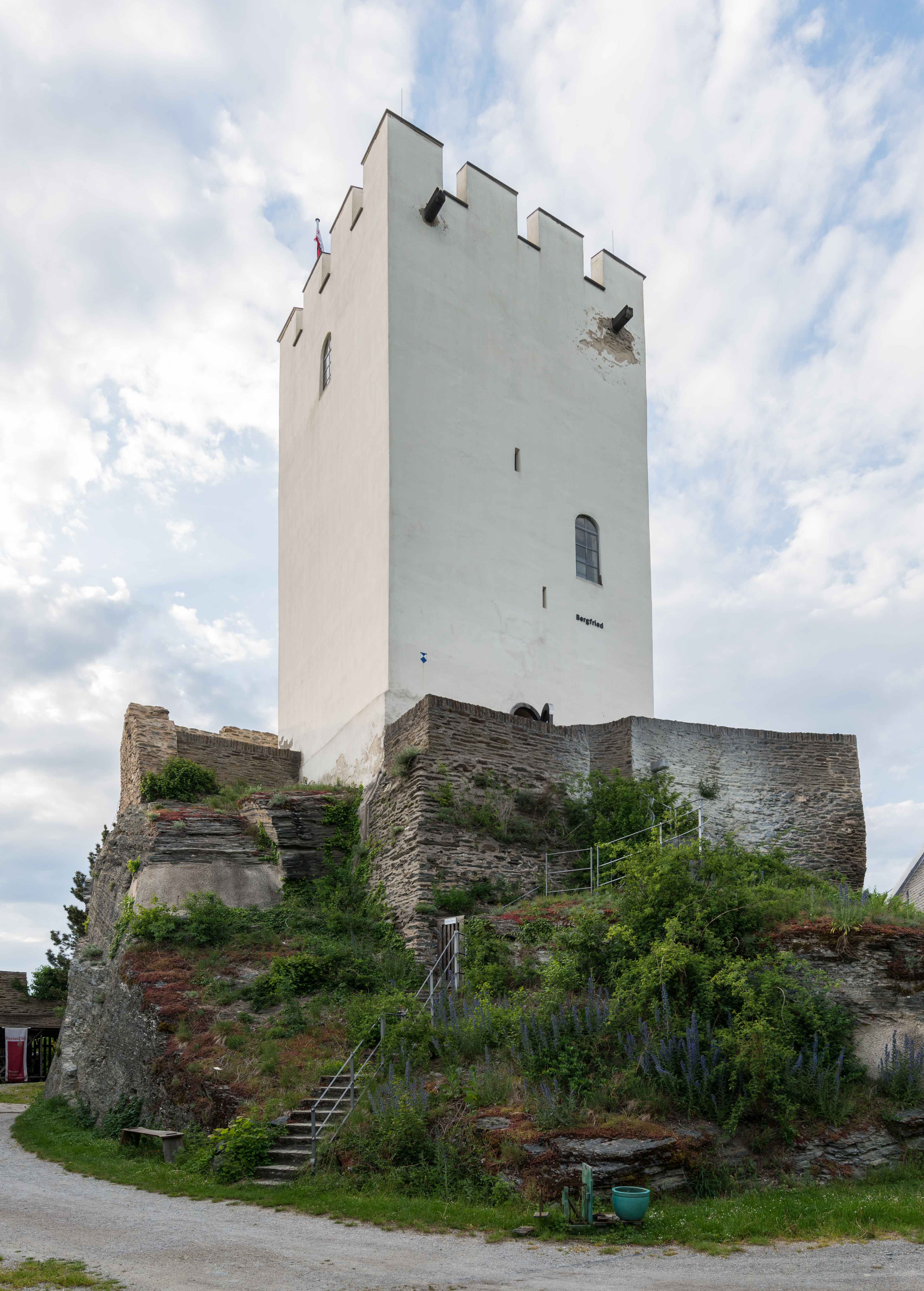 Keep, Sterrenberg Castle, East view